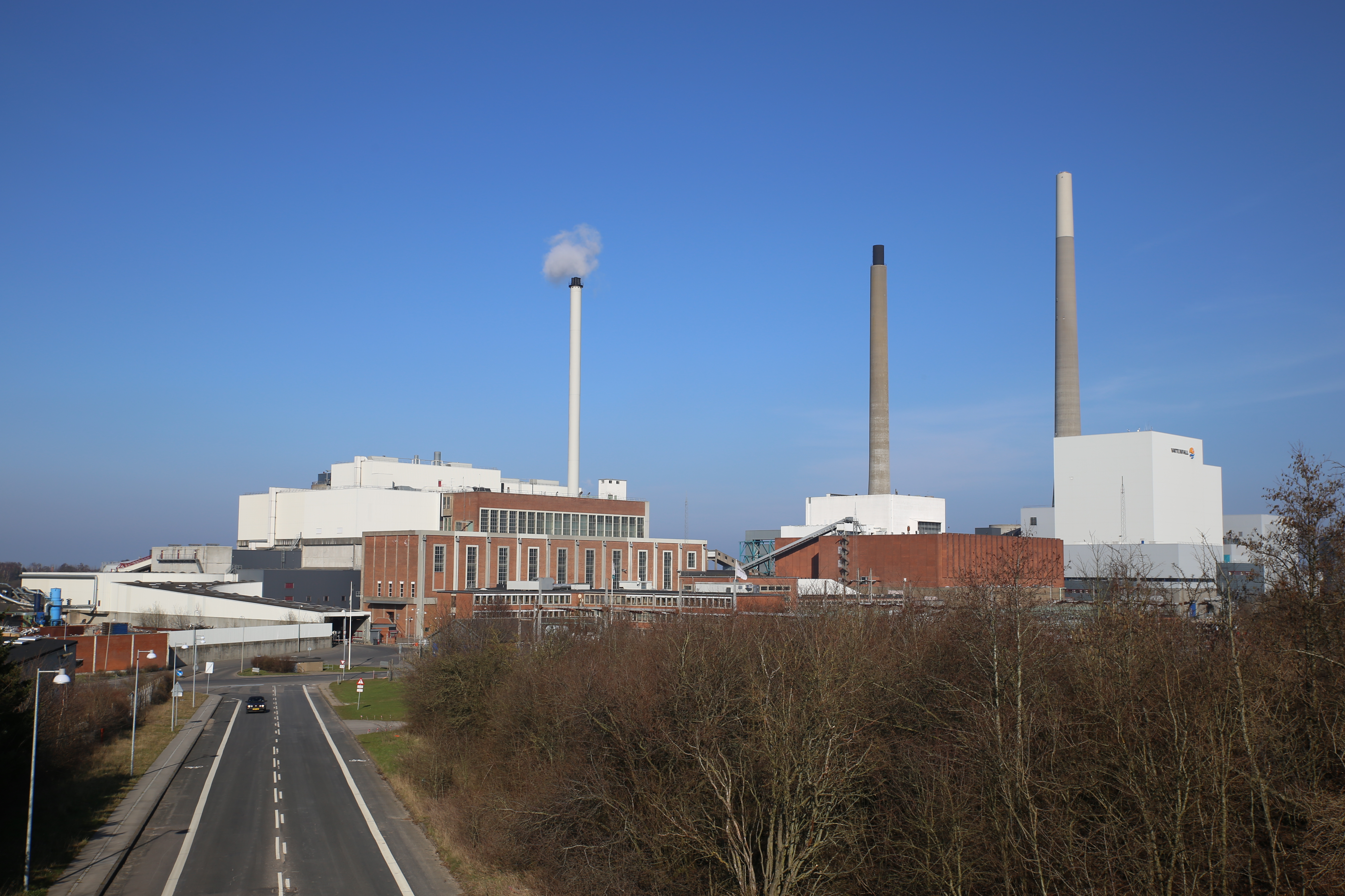 The Fynsværket power station seen from the Odins Bro road in Odense, Denmark.